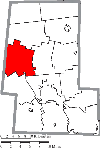 Map of the municipal and township boundaries of Union County, Ohio, United States, as of the 2000 census, with the location of Liberty Township highlighted. Township borders are shown only in unincorporated areas in order to differentiate incorporated and unincorporated areas more clearly.